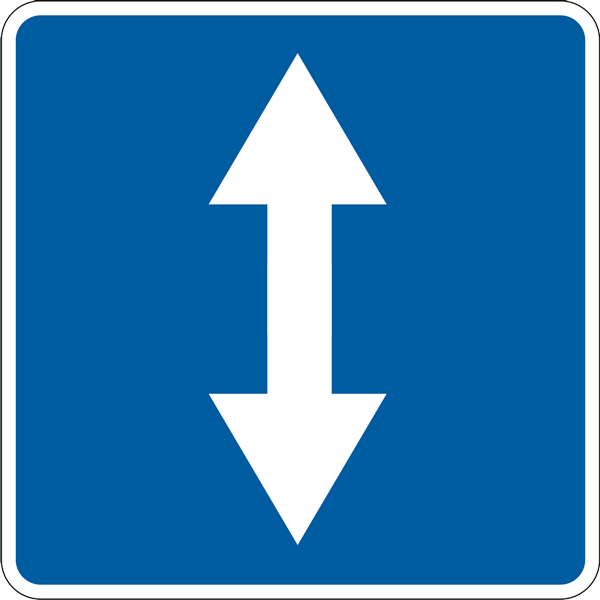 Reversible lane.